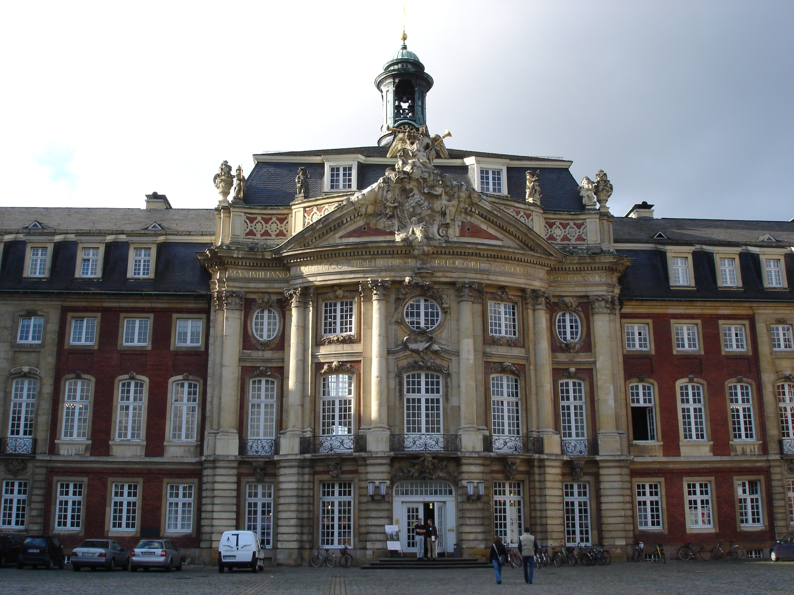 Main entrance of the castle of the city of Münster (Westphalia), Germany